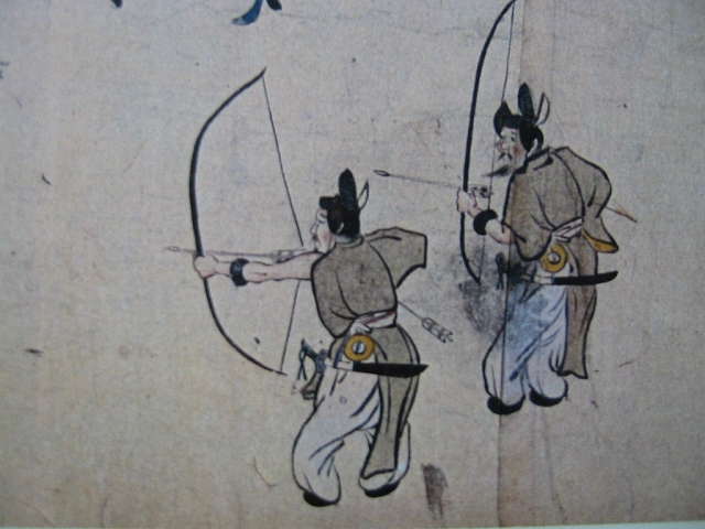 宮廷行事、射遺の図。『年中行事絵巻』(保元〜治承年間成立）の模本第四巻（江戸初期（京都大学文学部蔵））から。 Japanese Court function "Inokoshi". From Copy (early Edo era: Kyoto University collection). Original "Nenchu Gyoji Emaki" (an annual function illusts scroll) (late 12th century).